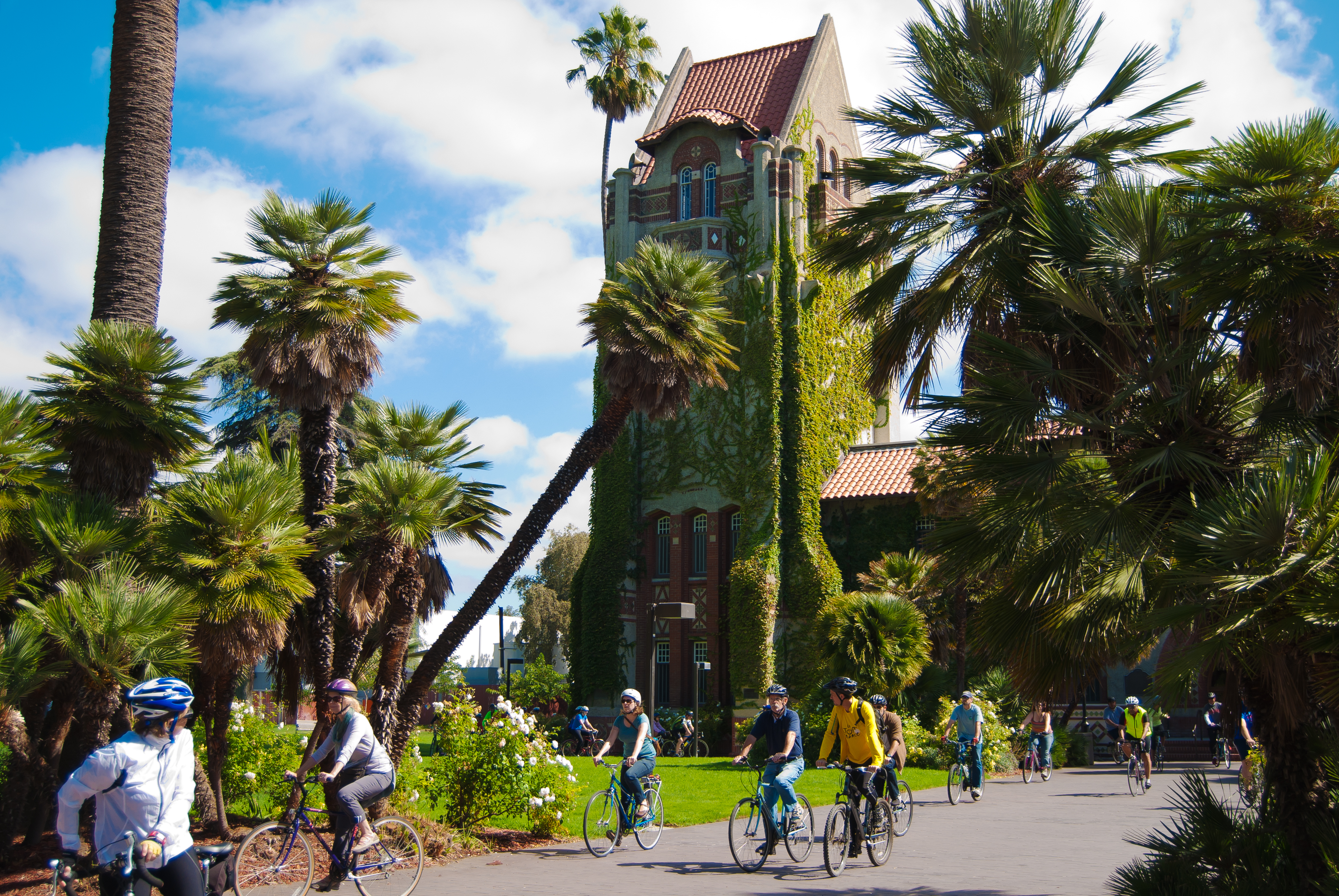 Photo by Sergio Ruiz